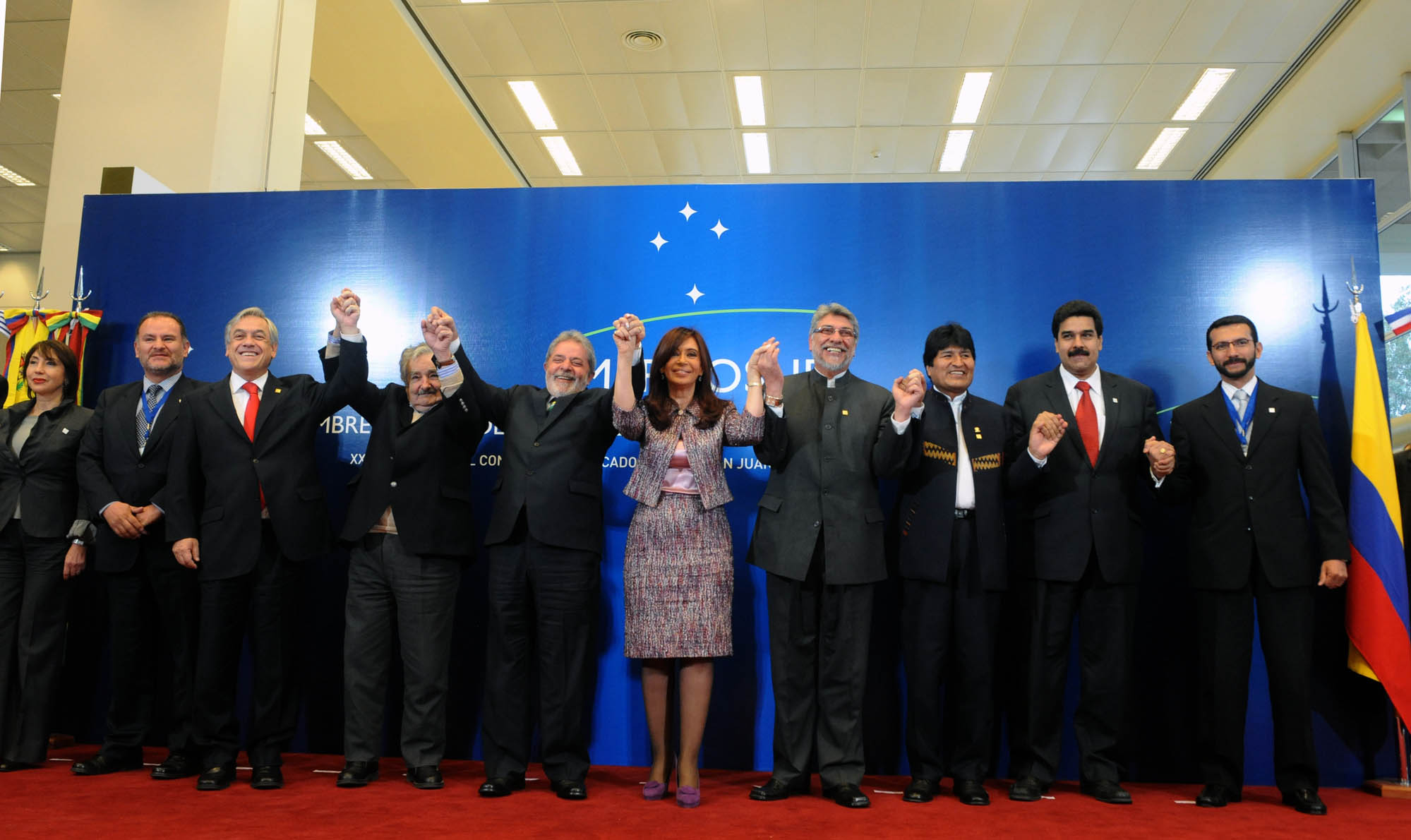 Presidents at 39th Mercosur summit at San Juan, Argentina